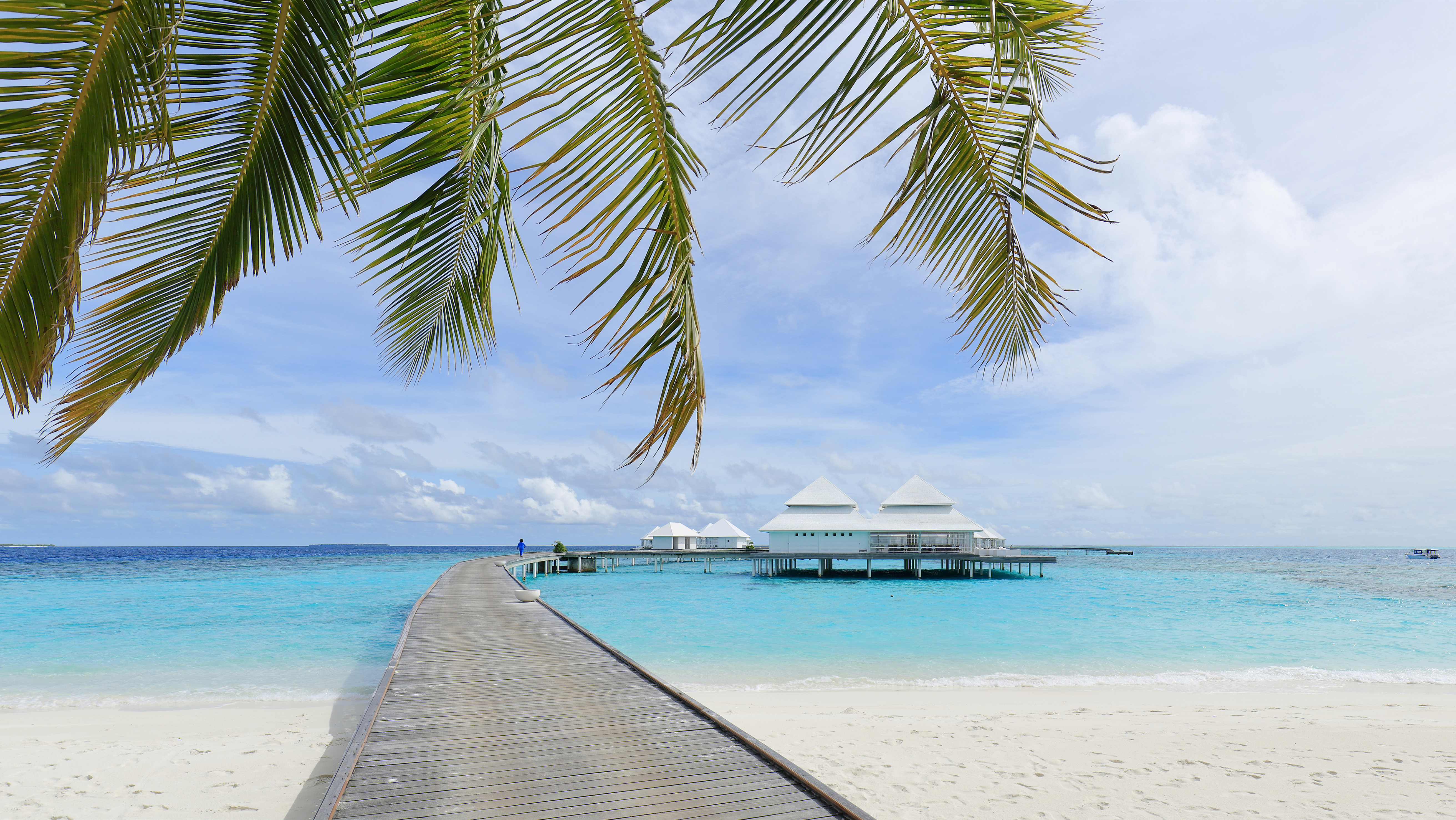 Diamonds Thudufushi Beach & Water Villas, a luxury resort on Thudufushi, Ari Atoll, Maldives.